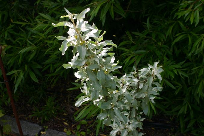 Elaeagnus commutata: Flowering shrub. Removed watermark read: Beder 6.6.2005 Photo: Sten Porse